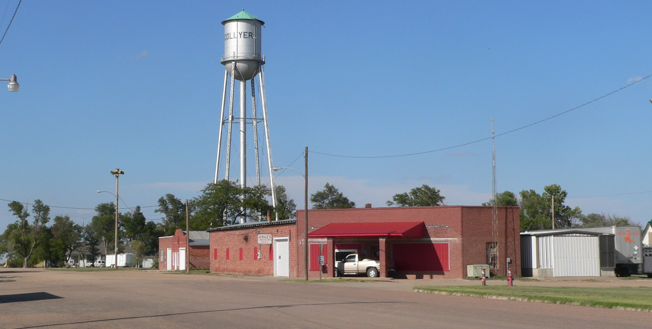 Downtown Collyer, Kansas: west side of Ainslie Avenue north of 3rd Street. Camera is facing northeast from between 3rd and 4th.